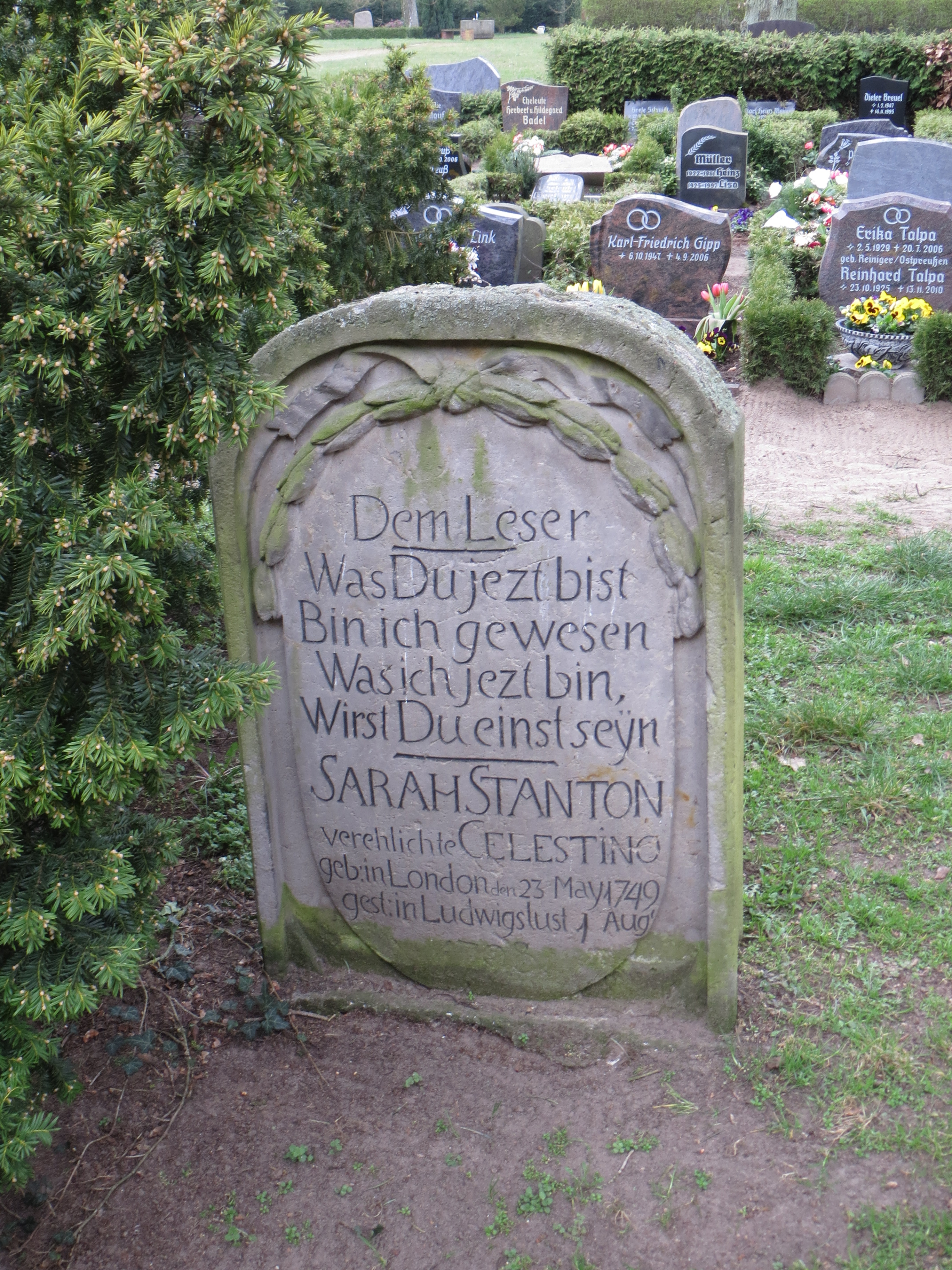 Friedhof Ludwigslust